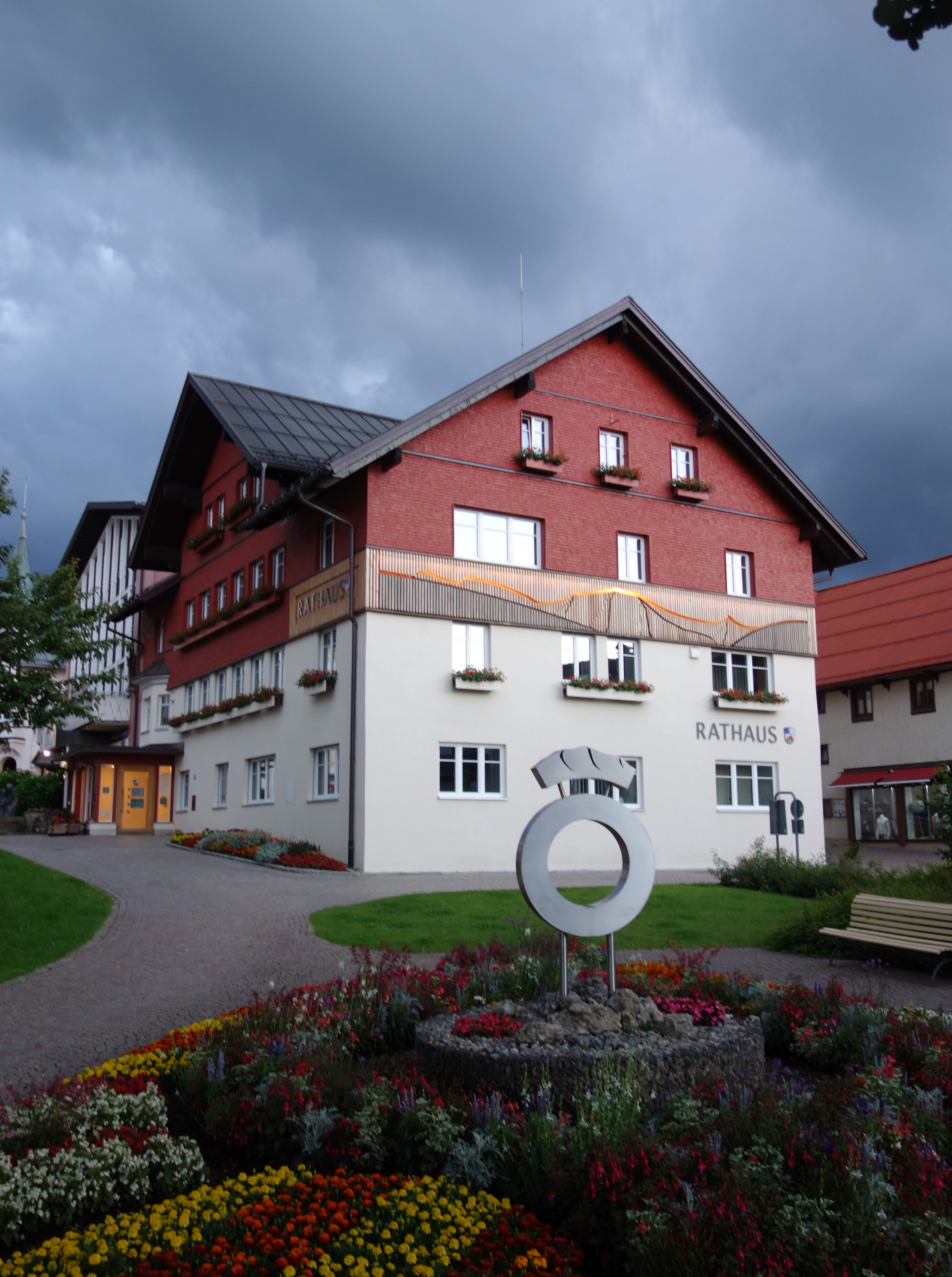 North-eastern view of the town hall in Oberstaufen , Oberstaufen municipality , Oberallgäu district, Bavaria state, Germany.